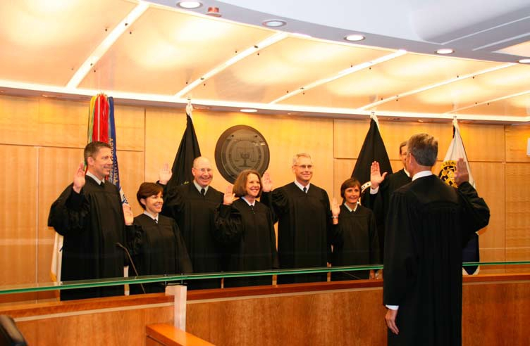 CAPT John Rolph swears in COL Paul Holden (USA), COL Dawn Scholz (USAF), COL Steven Walburn (USA), COL Amy Bechtold (USAF), COL Steven Thompson (USAF), COL Lisa Schenck (USA), and CAPT Eric Geiser (USN).